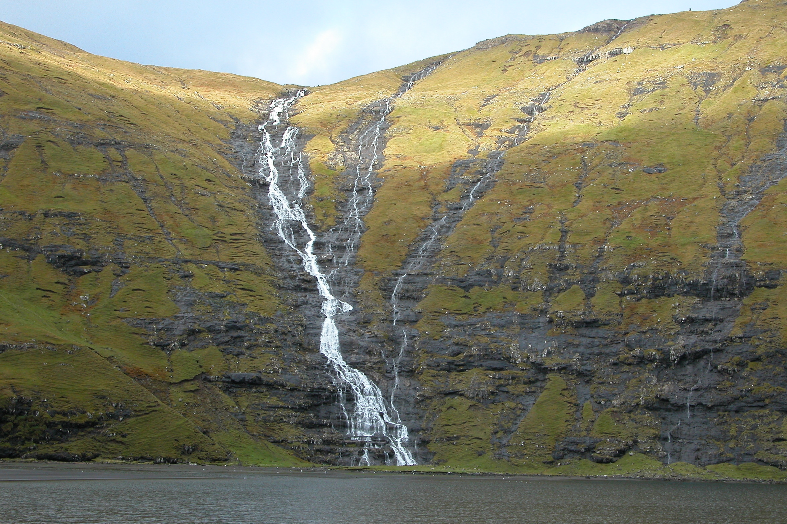 Saksun on Streymoy, Faroe Islands.